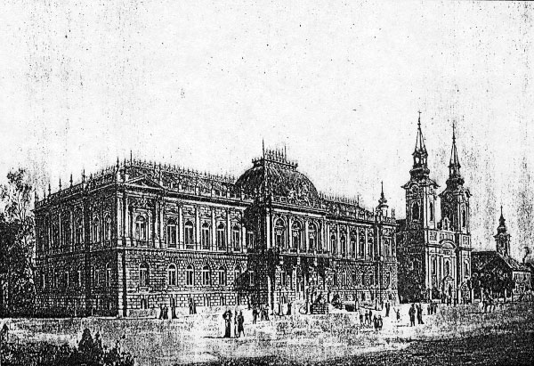 Serbian Orthodox Patriarchate in Sremski Karlovci, 19th century.